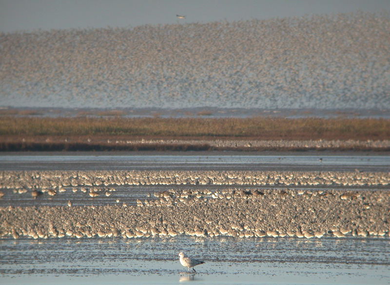 Roost of wading birds (mostly Red Knot Calidris canutus and Bar-tailed Godwit Limosa lapponica) on The Wash at Snettisham, Norfolk, England